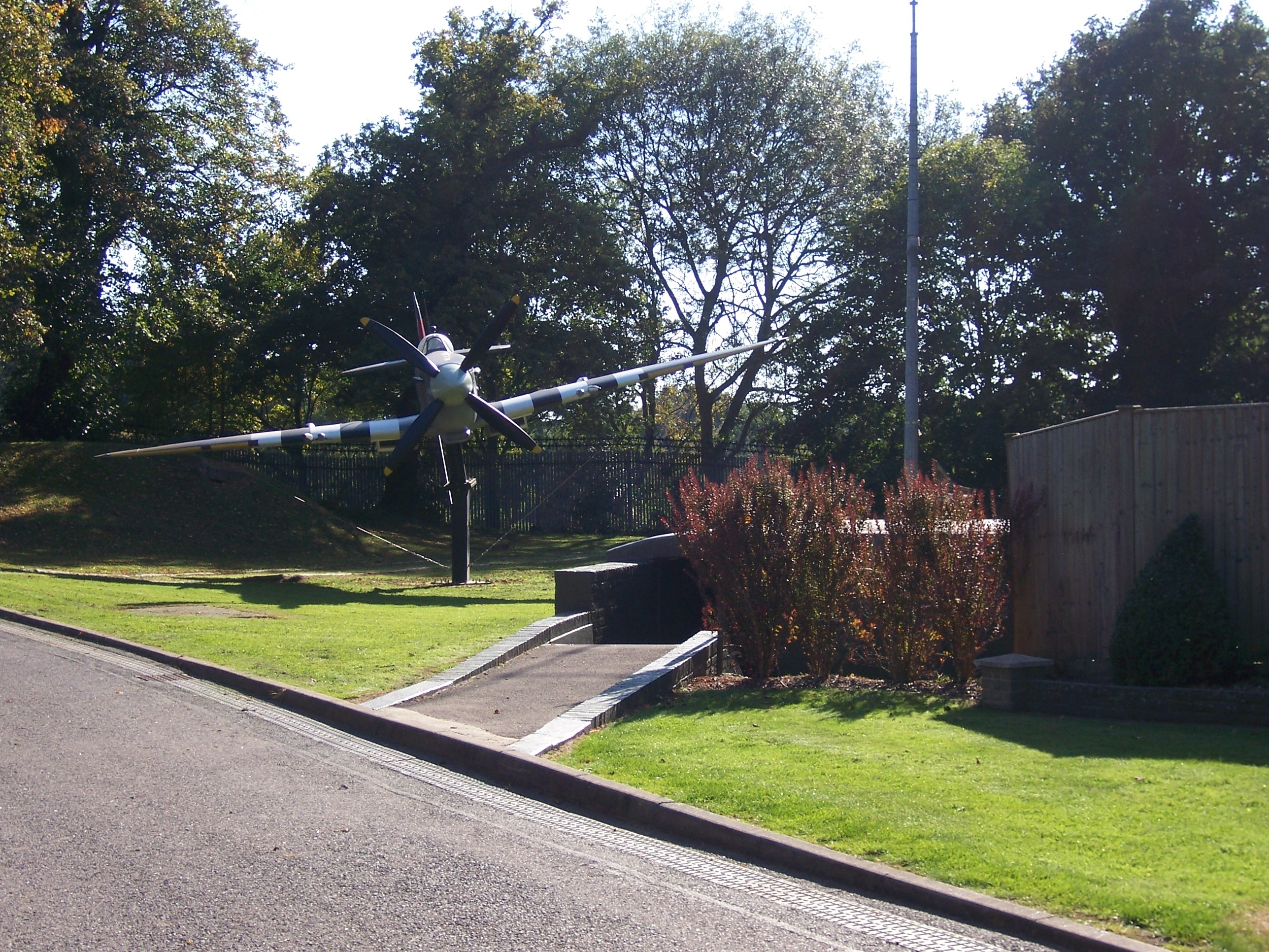 Entrance to the Battle of Britain Bunker with Spitfire gate guardian